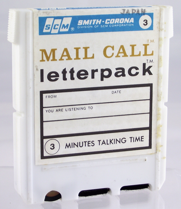 Smith-Corona Mail Call Letterpack, 3 minutes talking time